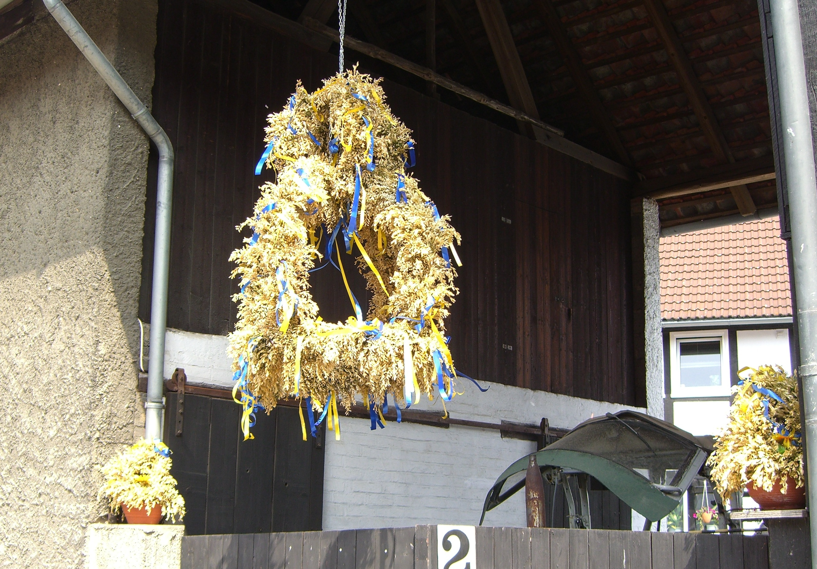 'harvest-crown' in Barmke